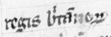 An excerpt from folio 29r of Lat. 4126 (the Chronicle of the Kings of Alba). The excerpt refers to Rhun ab Arthgal, King of Strathclyde.